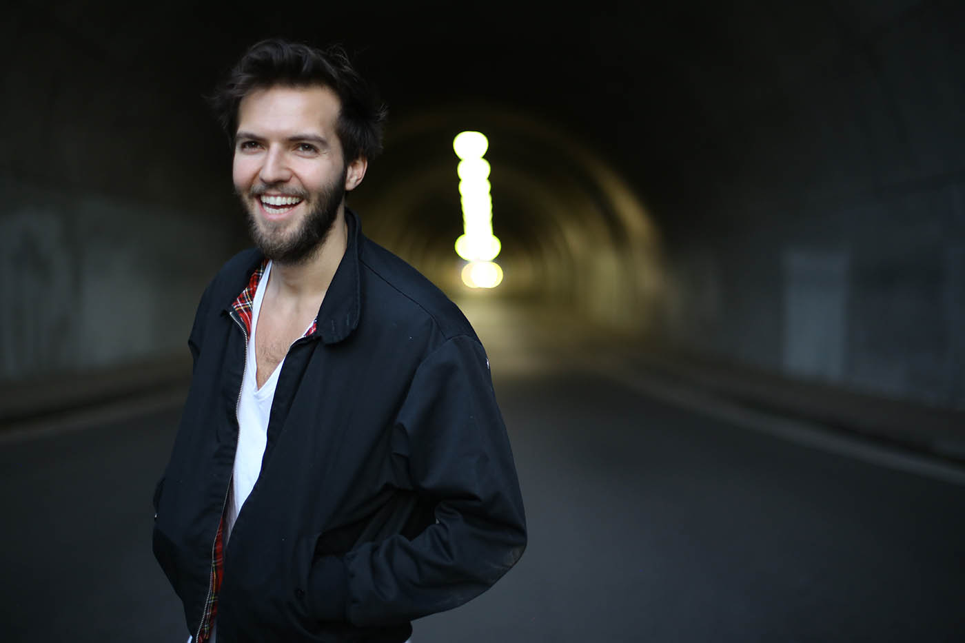 The actor, Guy Burnet